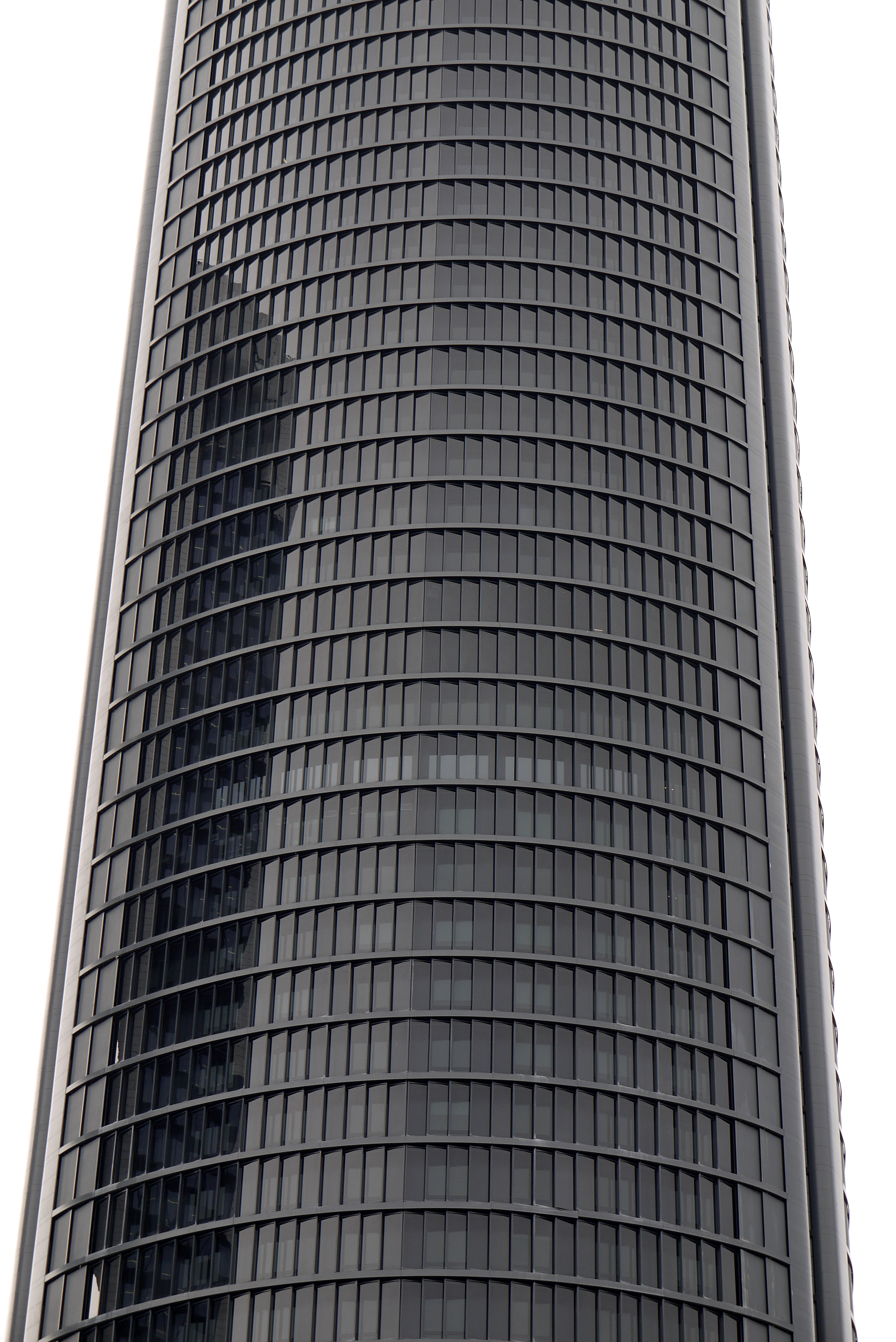 Madrid Cuatro Torres Business Area, Torre Sacyr Vallehermosa. Madrid, Spain.